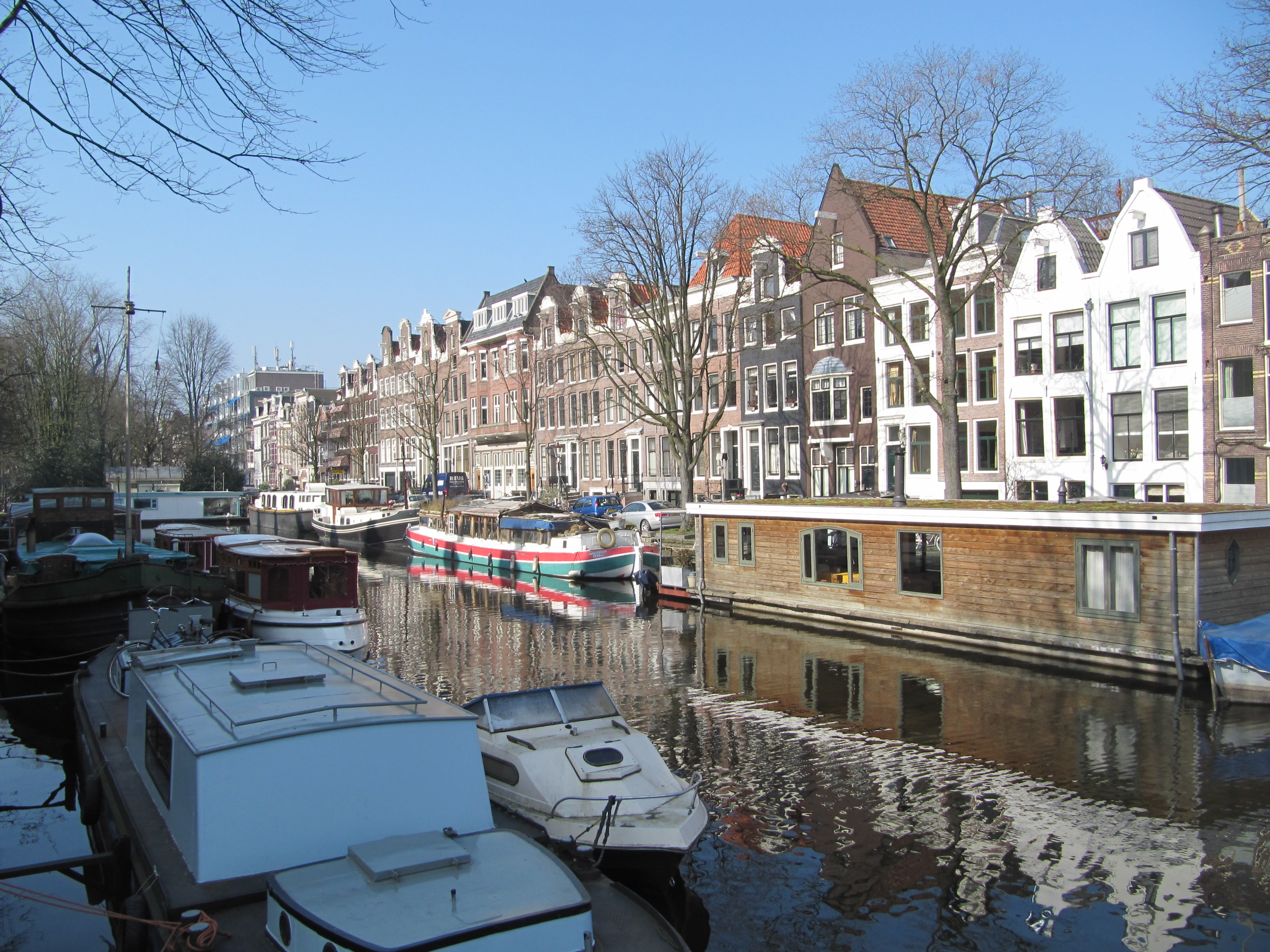 Amsterdam Achtergracht.jpg This is an image of rijksmonument number 130 This is an image of rijksmonument number 131 This is an image of rijksmonument number 132 This is an image of rijksmonument number 133 This is an image of rijksmonument number 134 This is an image of rijksmonument number 135 This is an image of rijksmonument number 136 This is an image of rijksmonument number 137